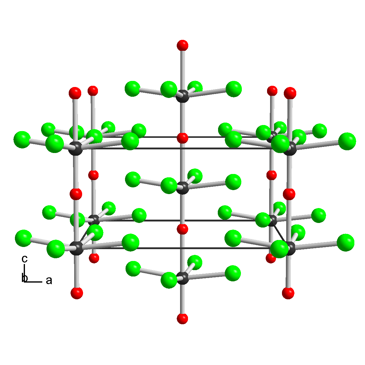 Crystal structure of tungsten(VI) oxide tetrachloride. Created using Diamond 4. Data from Hess, H.; Hartung, H. Die Kristallstruktur von Wolframoxidchlorid W O Cl4 und Wolframoxidbromid W O Br4 Zeitschrift fuer Anorganische und Allgemeine Chemie, 344, 157-166 (1966)